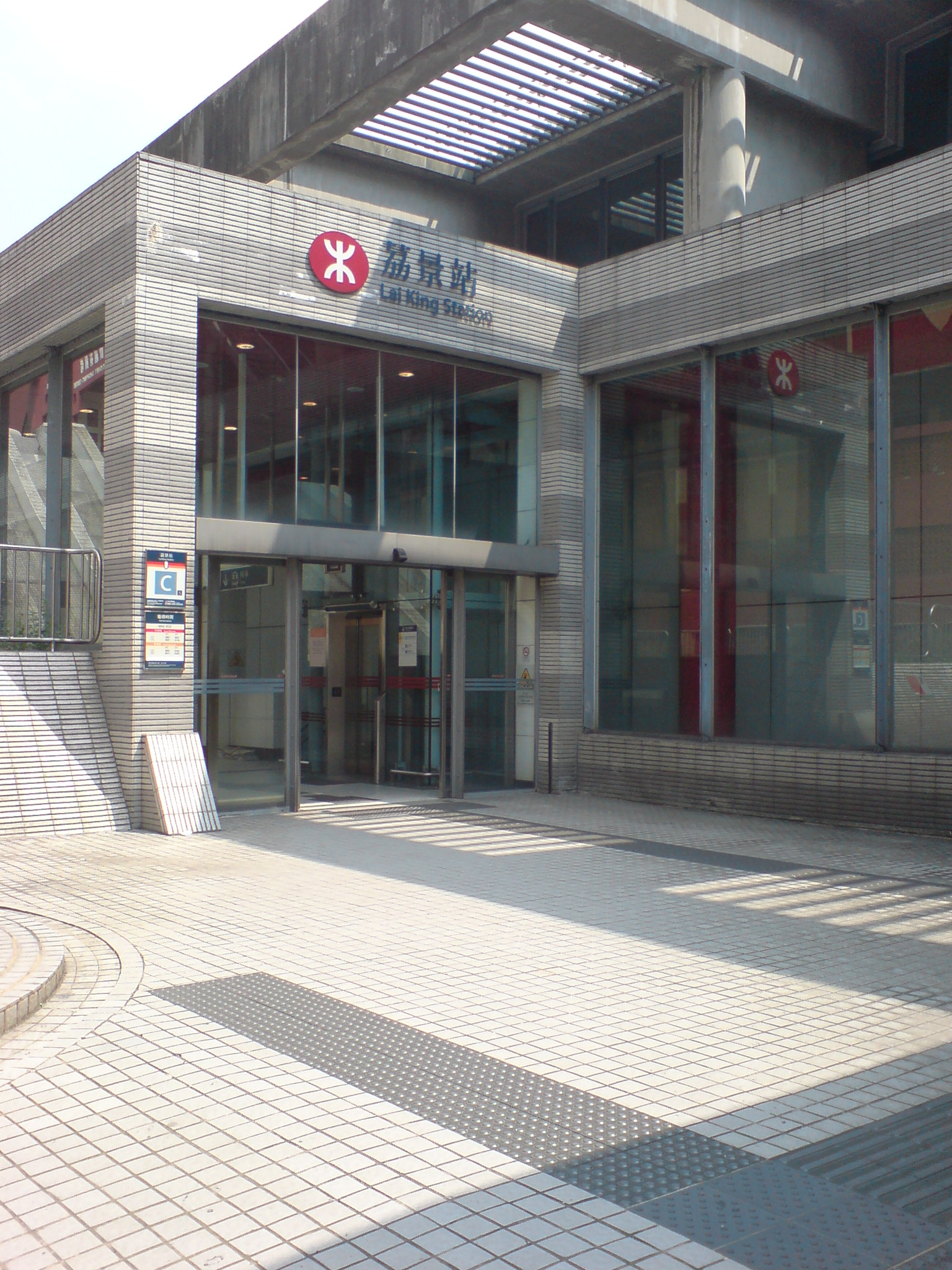 Lai King Station Exit C